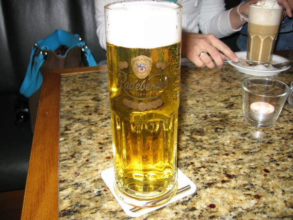 Taken and consumed by myself John McStravick